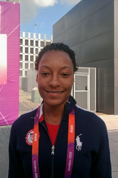 American track and field athlete Chelsea Hayes, taken at The London 2012 Summer Olympic Games